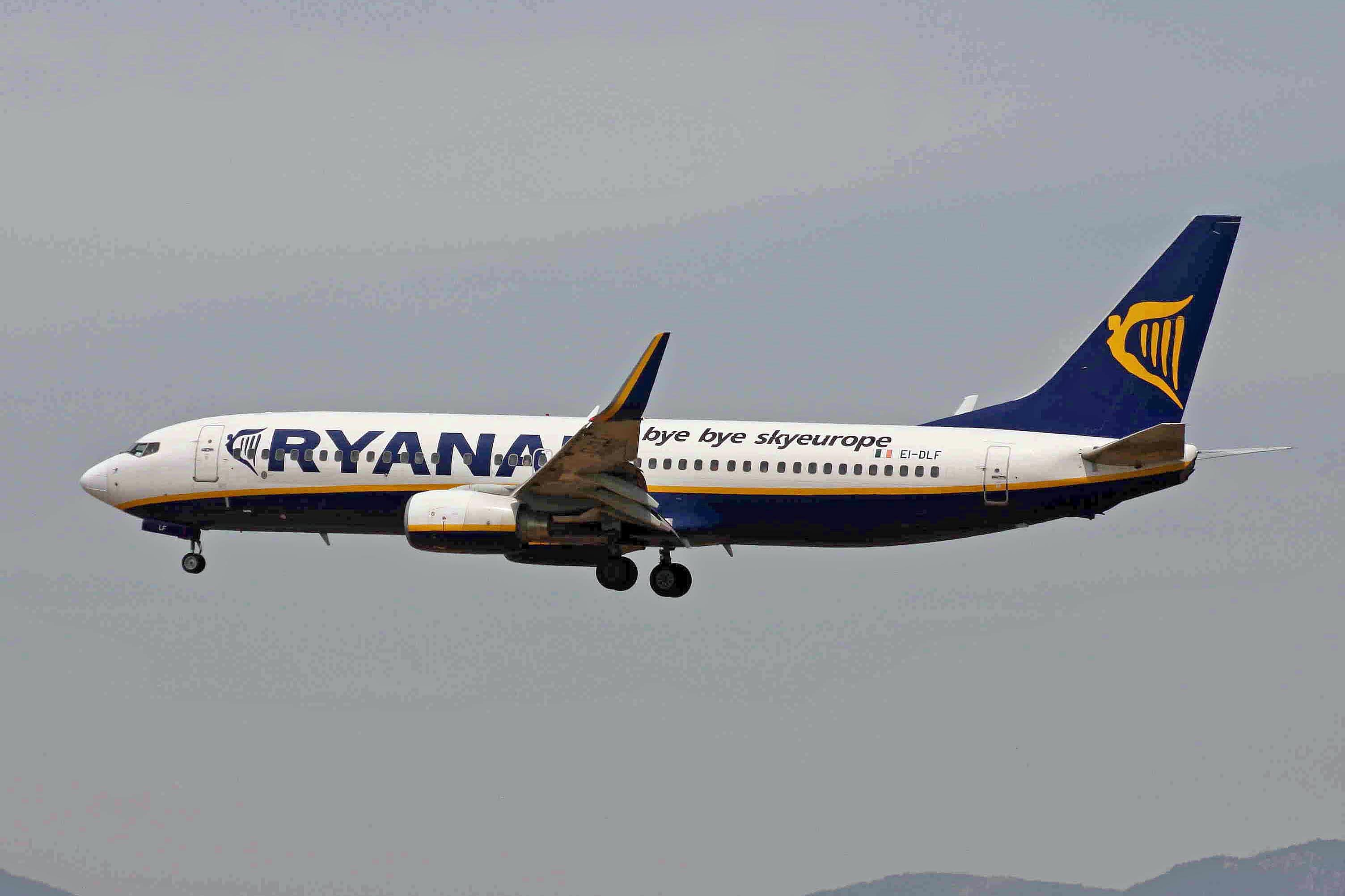 Additional 'Bye Bye SkyEurope' titles